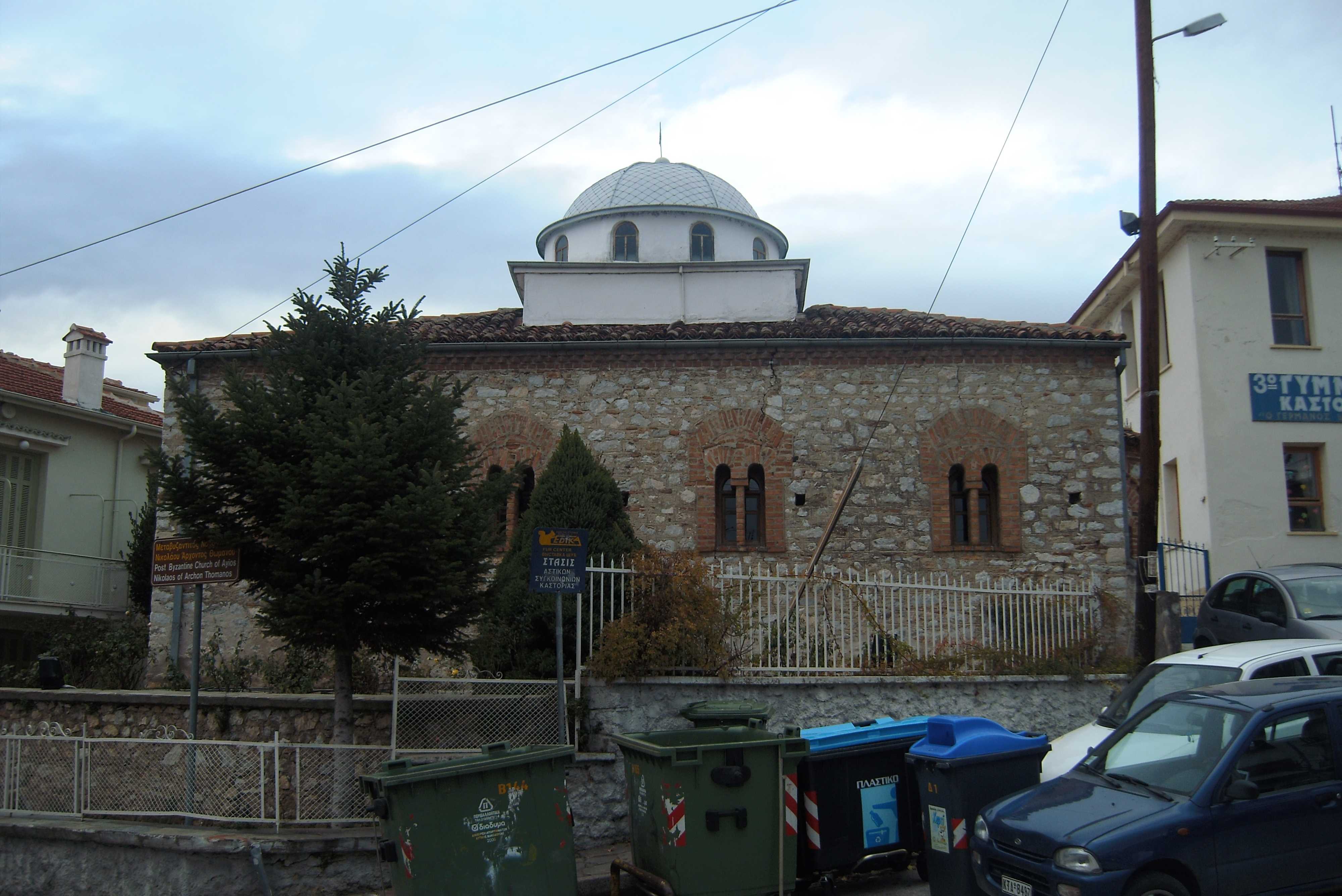 Agios Nikolaos Arhondos Thomanouchurch in Kastoria